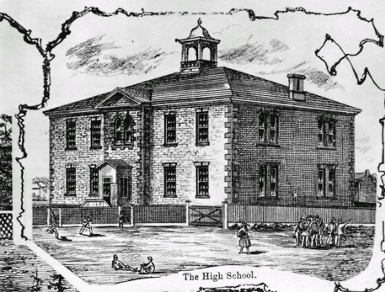 Almonte High School, 1879